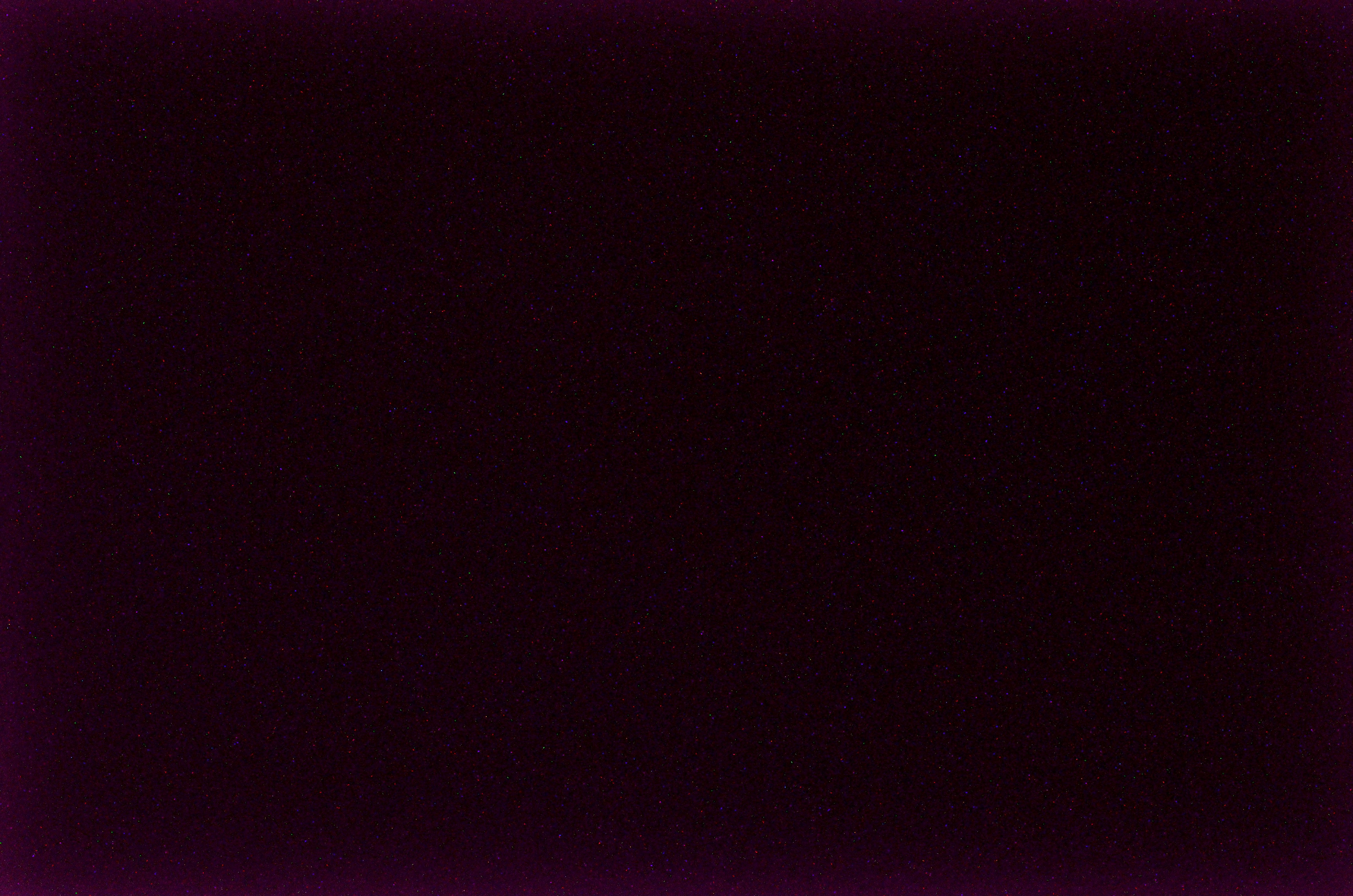 Hot pixel test on a Nikon D5100 image sensor that has taken thousands of photos. Lens was in virtual darkness with several layers of foil and paper. Glow around edges is not likely to be leakage as I changed the cover between exposures and the glow remained scalably the same.